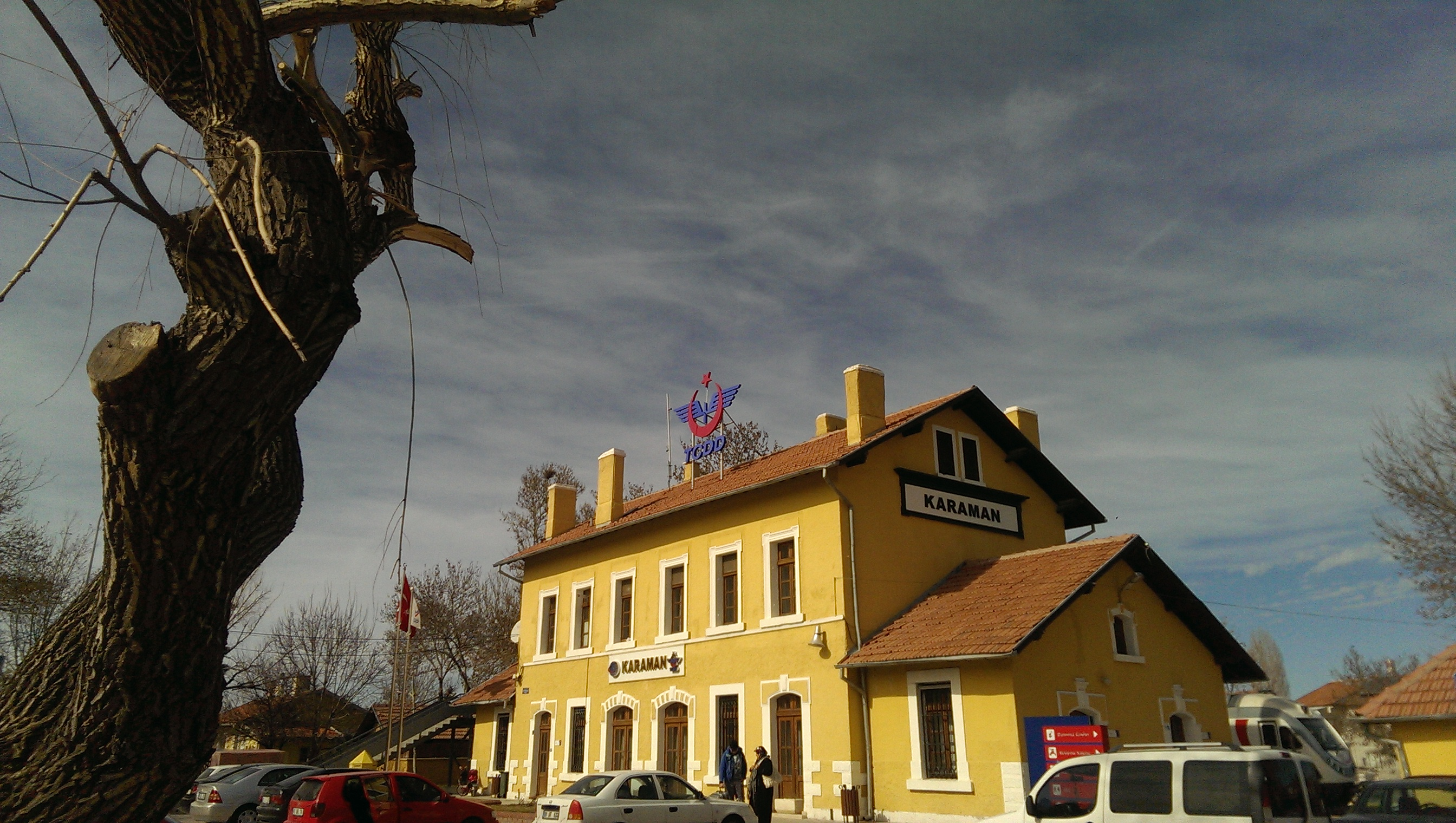 Karaman Main Station's main building, Karaman Province, Turkey.